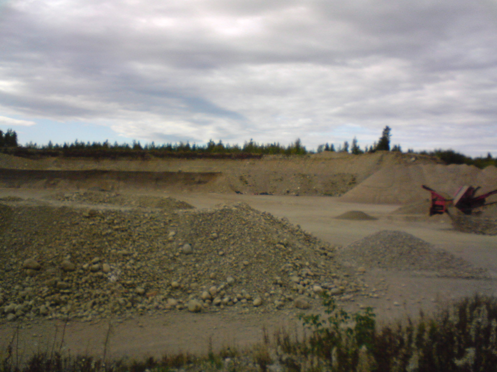 Gravel pit at Arvidsbo, Tierp